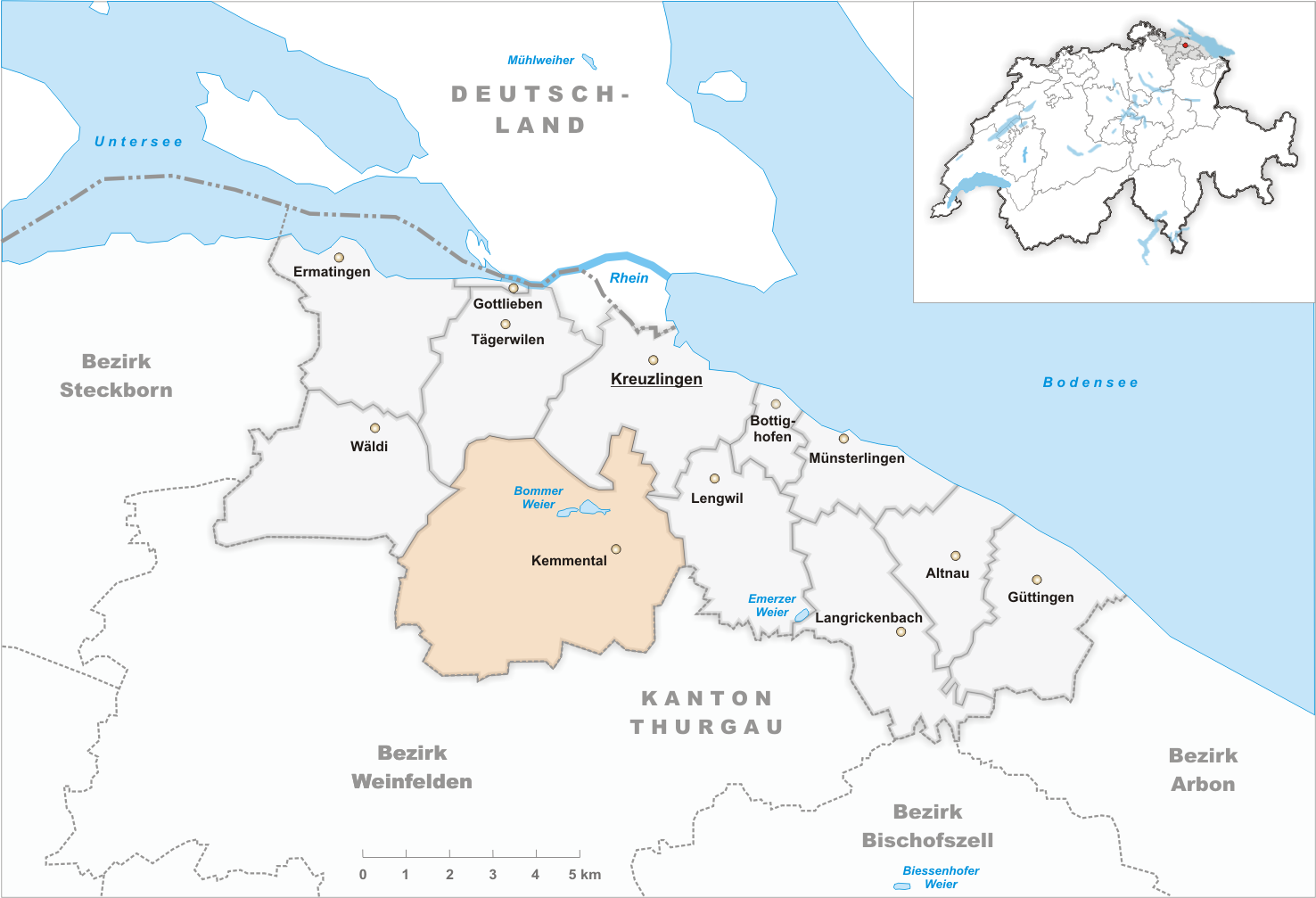 Municipality Kemmental